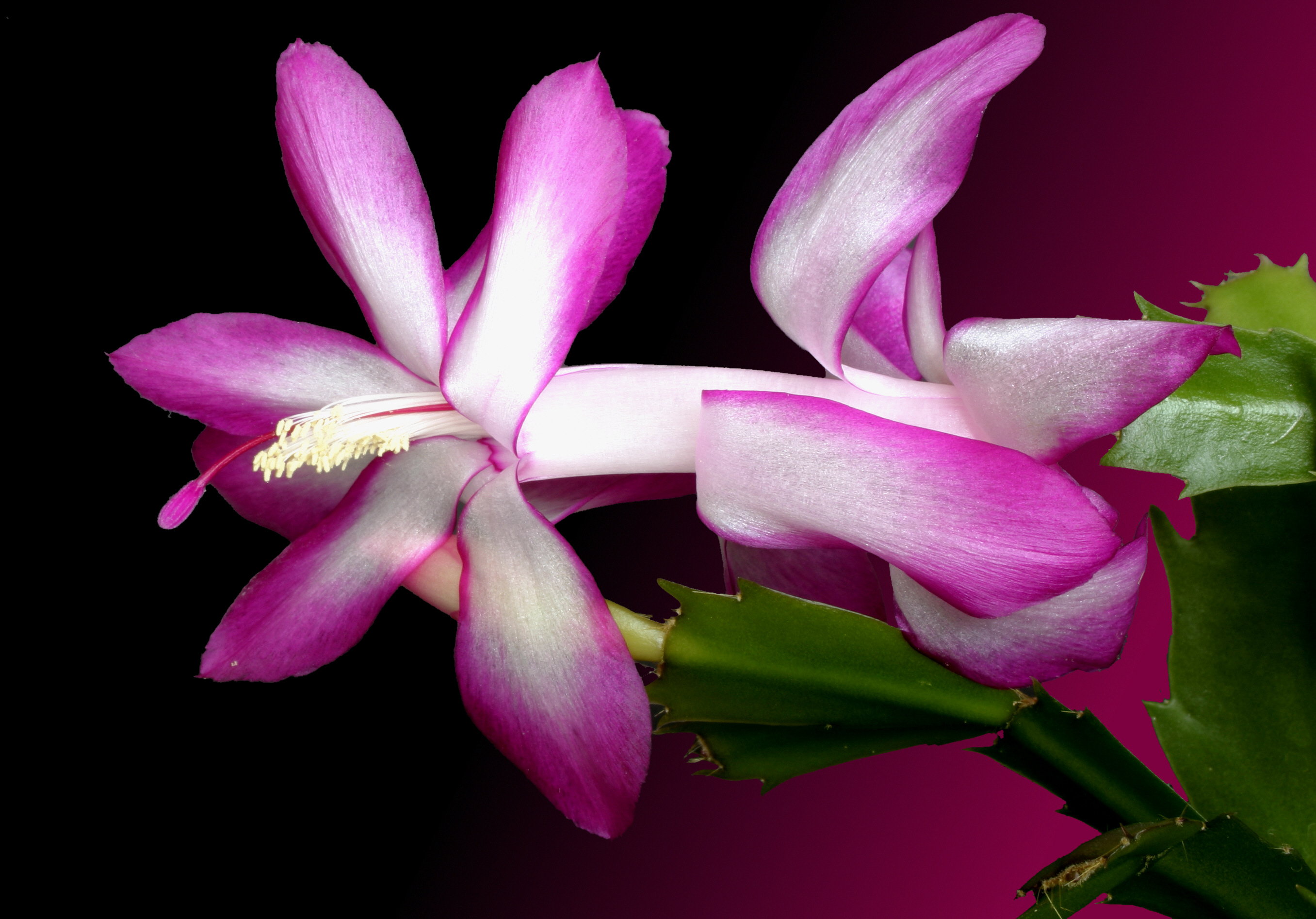 Christmas Cactus cultivar. This appears to be Schlumbergera Reginae Group 'Bristol Queen'; the hybrid S. orssichiana × S. Truncata Group 'Spectabile', made by McMillan in 1985. See the illustration in McMillan, A.J.S.; Horobin, J.F. (1995) Christmas Cacti : The genus Schlumbergera and its hybrids, p/b edition, Sherbourne, Dorset: David Hunt, ISBN 978-0-9517234-6-3, p. 119.